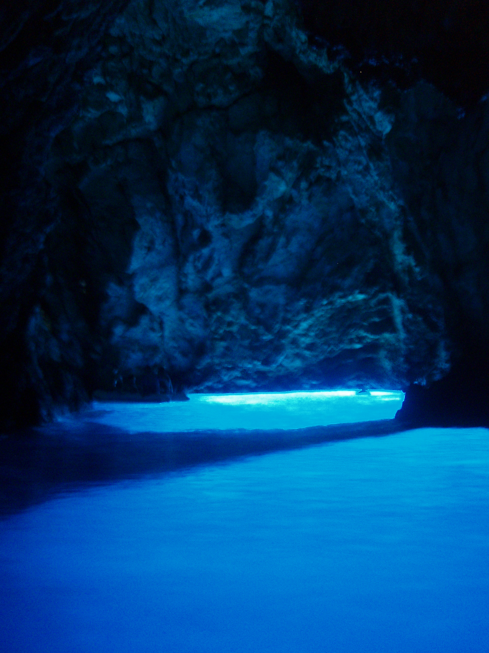 The blue cave - Biševo Island - Croatia